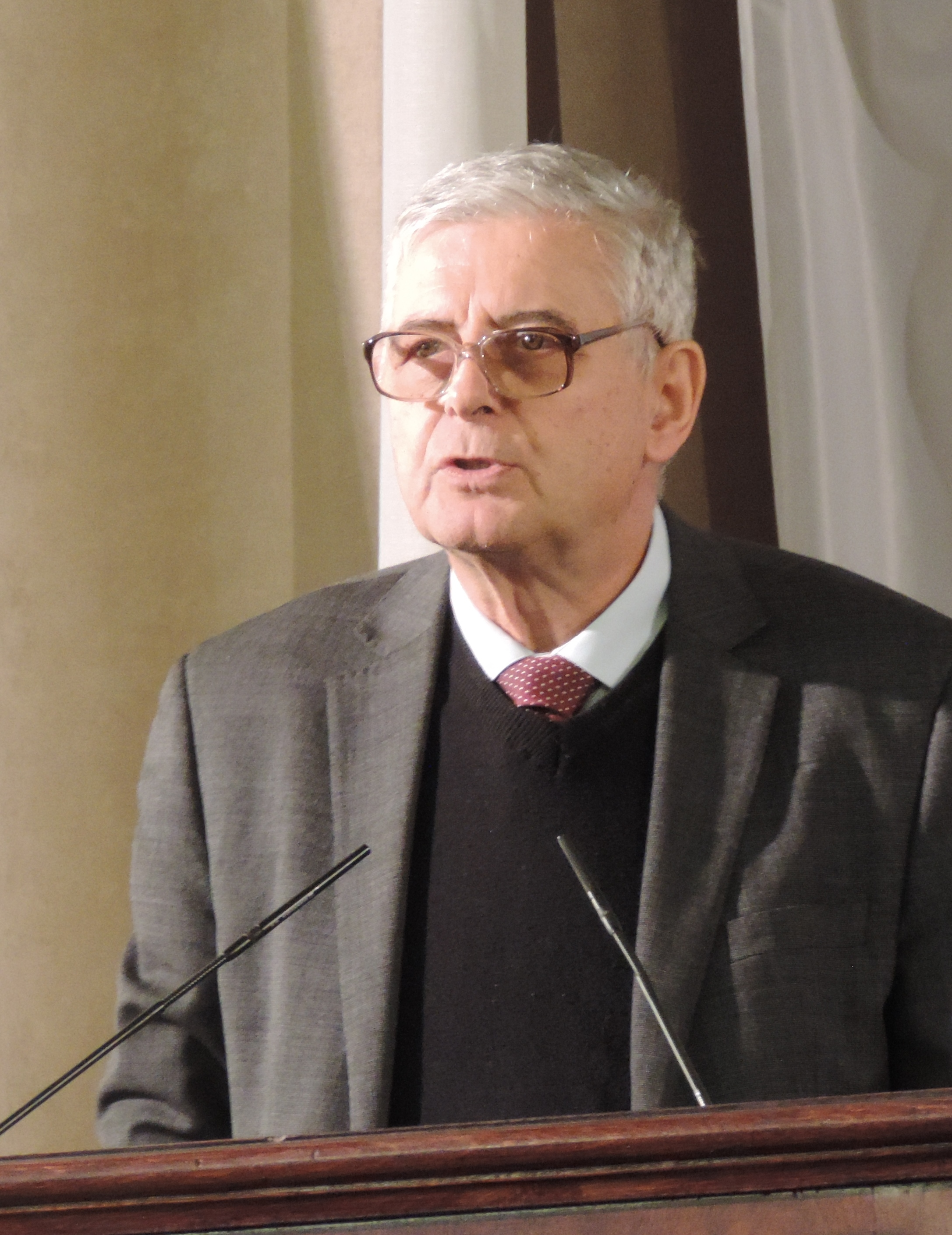 Bulgarian Academician Prof. Petar Kenderov, during the Official meeting for the 70-th Anniversary of the Union of Scientists in Bulgaria, 31.10.2014